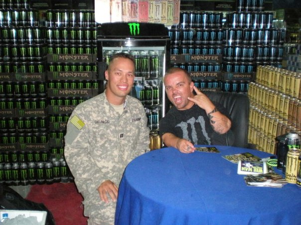 Wee Man poses with a US Soldier.